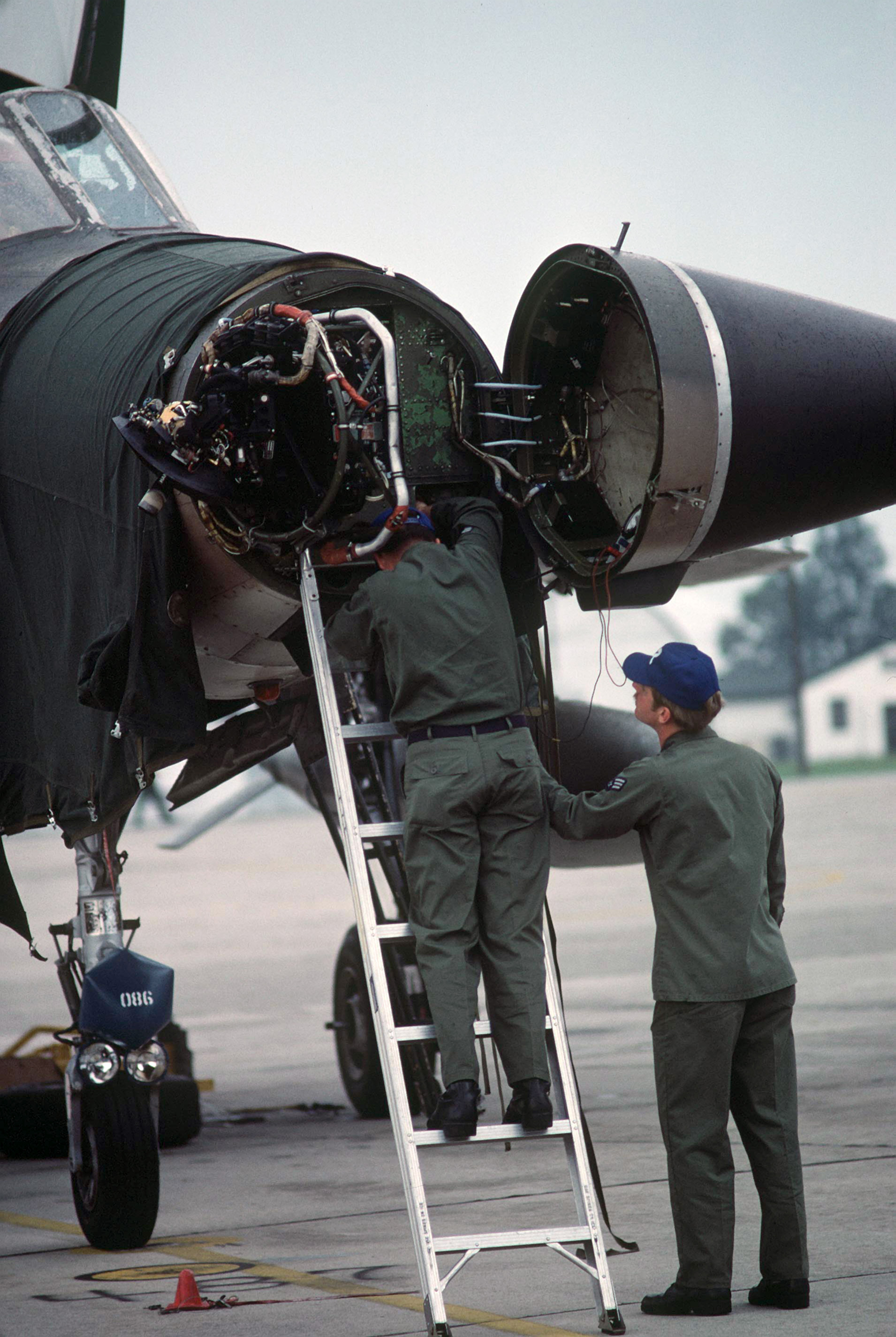 A U.S. Air Force airmen service the NASARR R-14A radar system of an Republic F-105D-15-RE Thunderchief aircraft (s/n 61-0086) from the 149th Tactical Fighter Squadron, 192d Tactical Fighter Group, Virginia Air National Guard, during exercise "Solid Shield 78" on 1 May 1978.